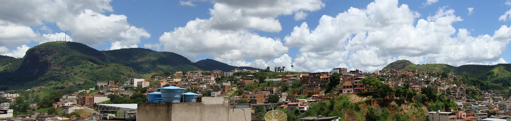 Panoramic of Caratinga, Minas Gerais, Brazil.